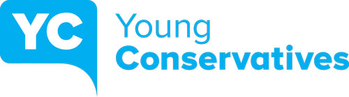 Young Conservatives Logo